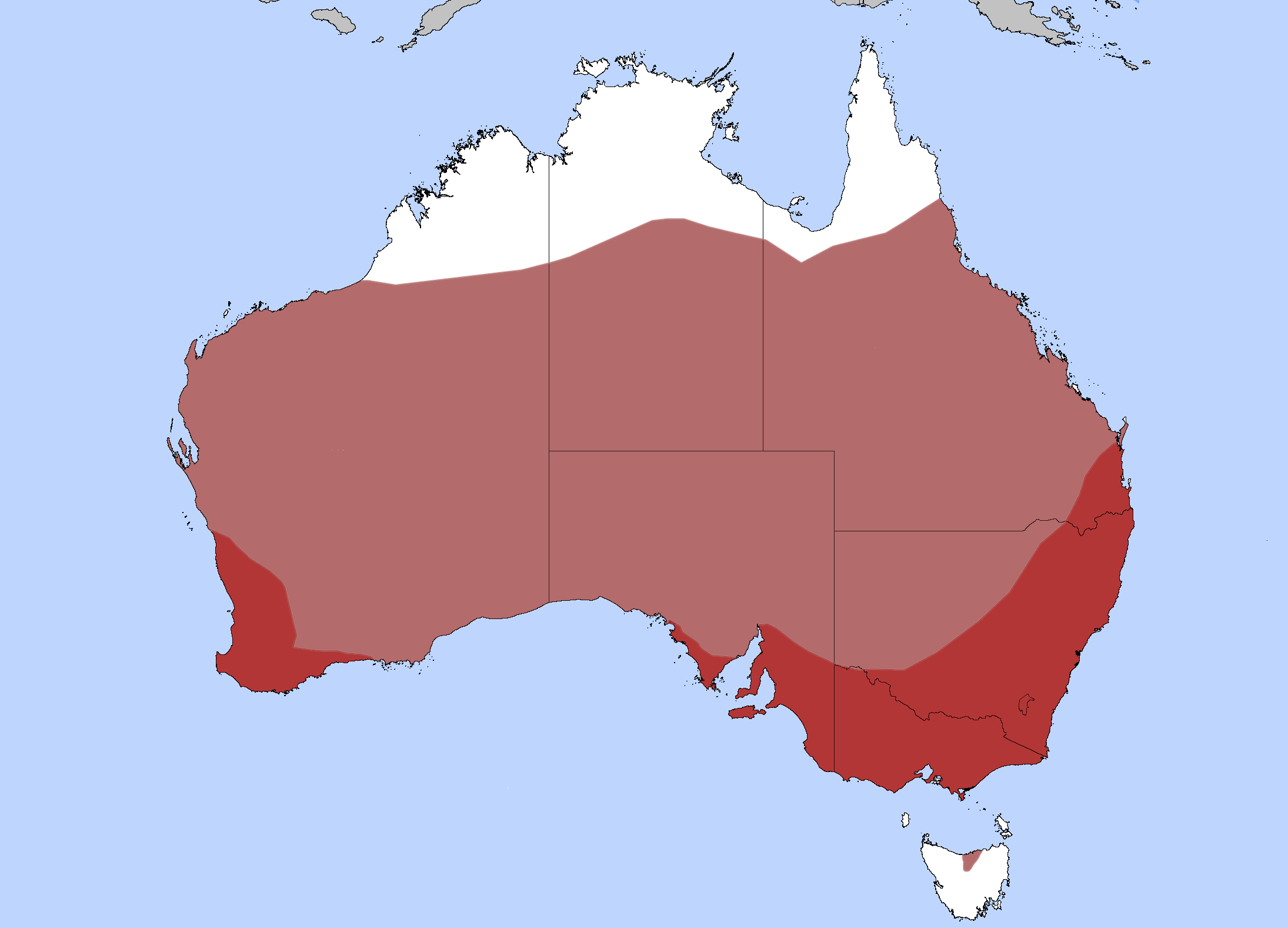 The Distribution of the Stubble Quail Dark Red = Common Light Red = Nomadic